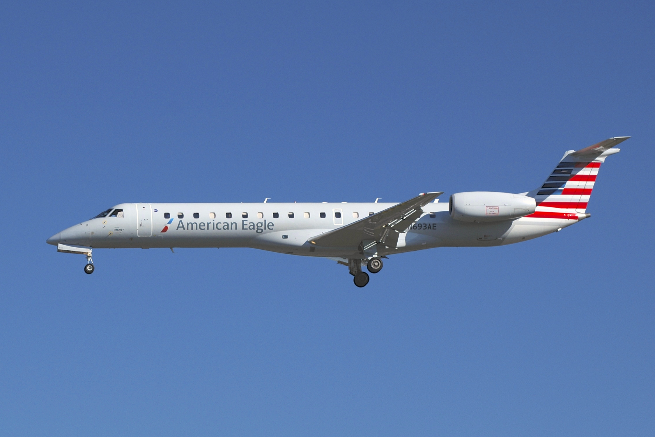 Envoy Air/American Eagle Airlines Embraer ERJ 145 N693AE on arrival to BWI.